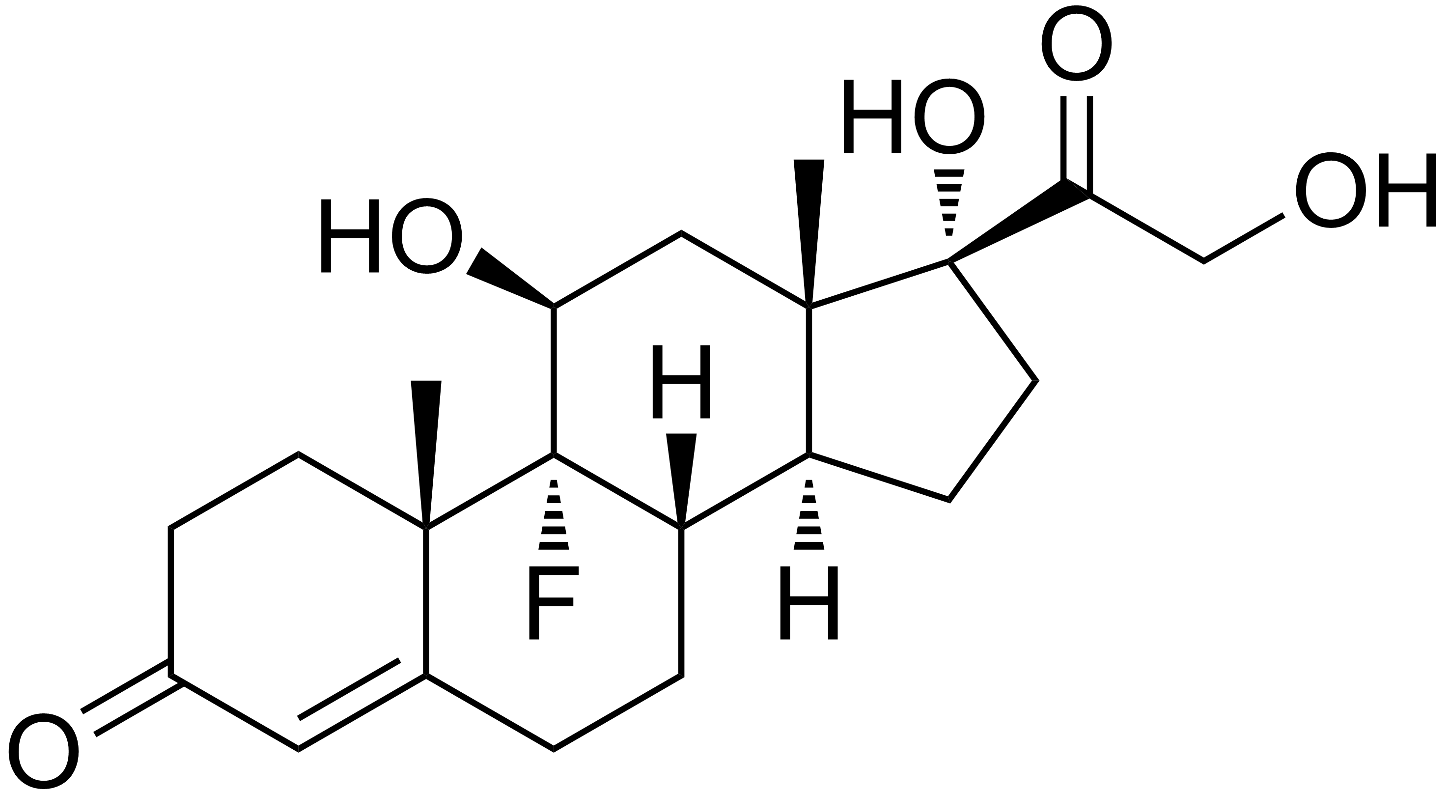 chemical structure of fludrocortisone